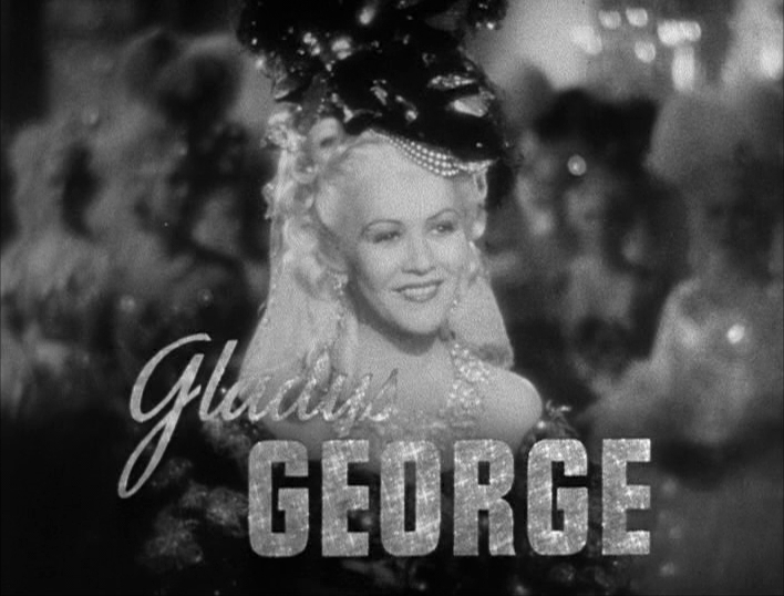 Cropped screenshot of Gladys George from the trailer for the film Marie Antoinette